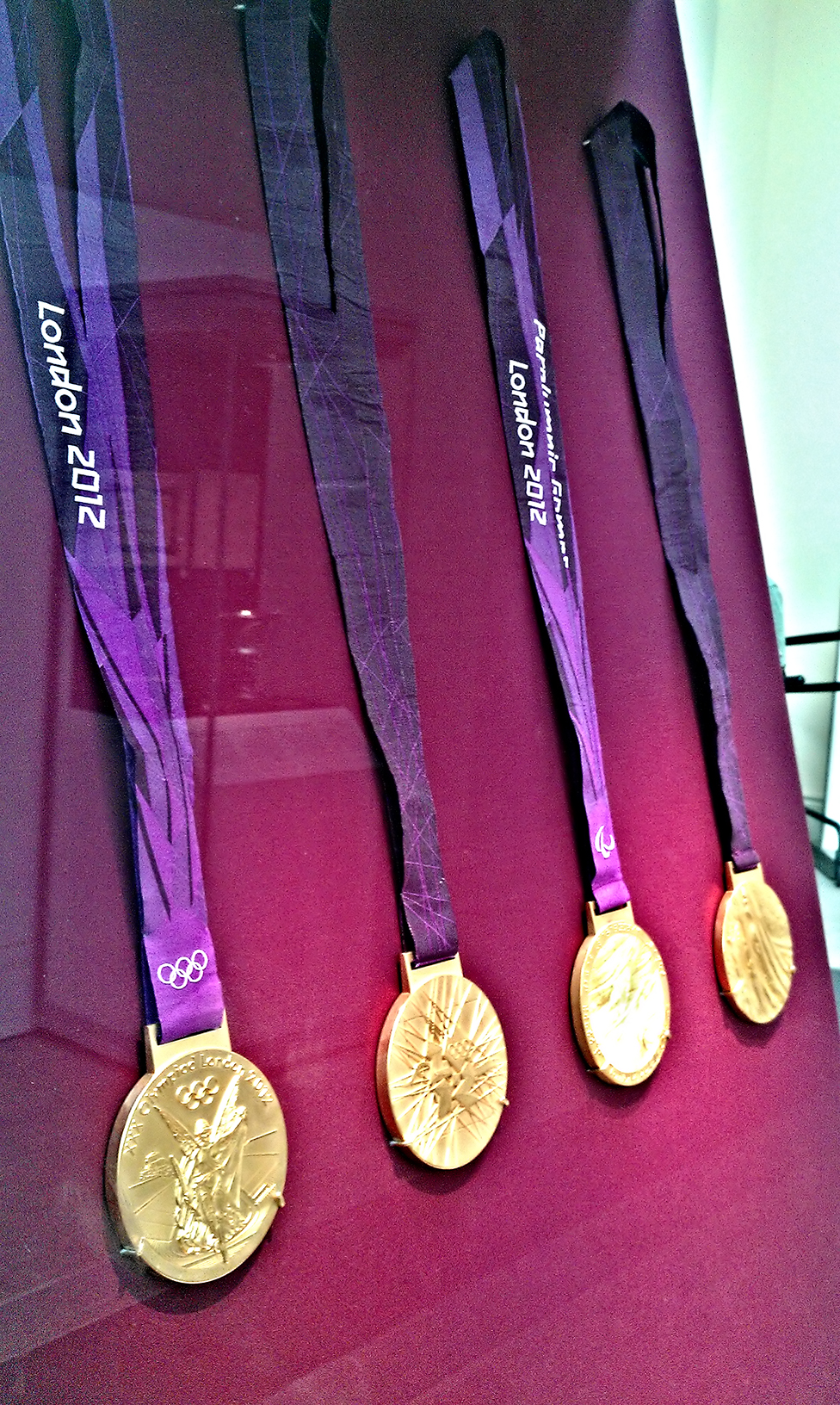 The medal's designer David Watkins included, in his words, 'the goddess Nike for the spirit and tradition of the Games and the River Thames for the city of London'. The fluttering form of the river contrasts with the dynamic lines emanating from the London 2012 logo. The medal's concave back is intended to suggest a modern stadium. The front is a reworked version of a design made for the International Olympic Committee by Elena Votsi and used since 2004.